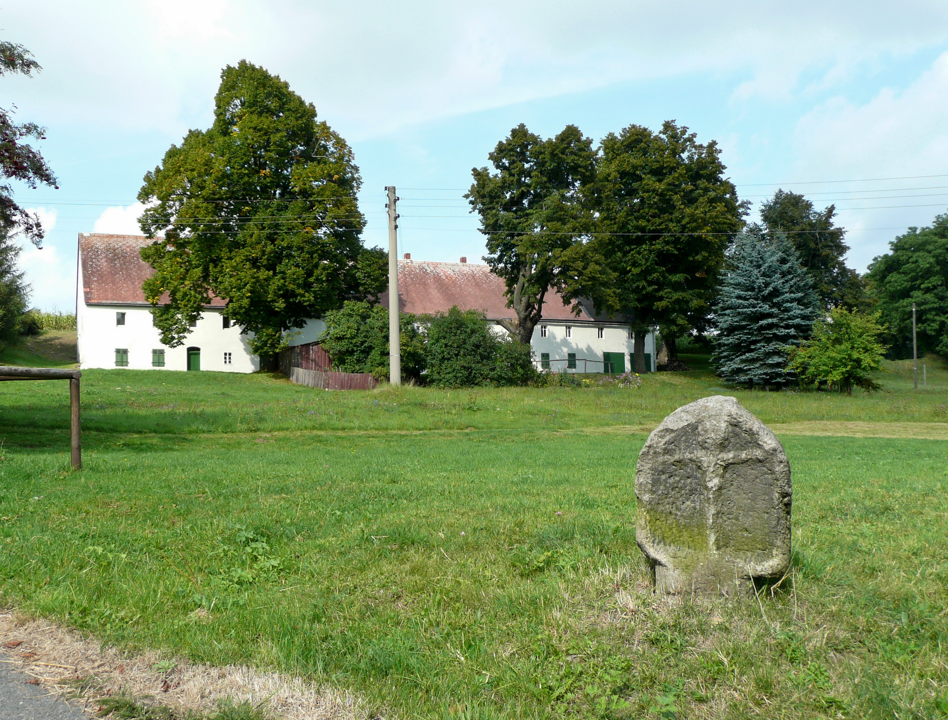 This image shows the rest of a Wayside shrine in Oelsen near Bad Gottleuba-Berggießhübel.